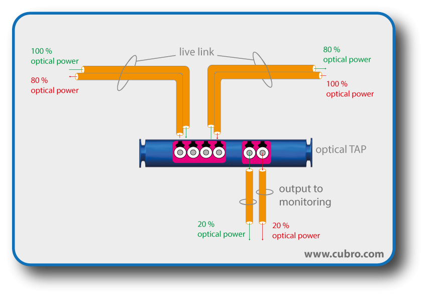 Basic function of an optical network tap